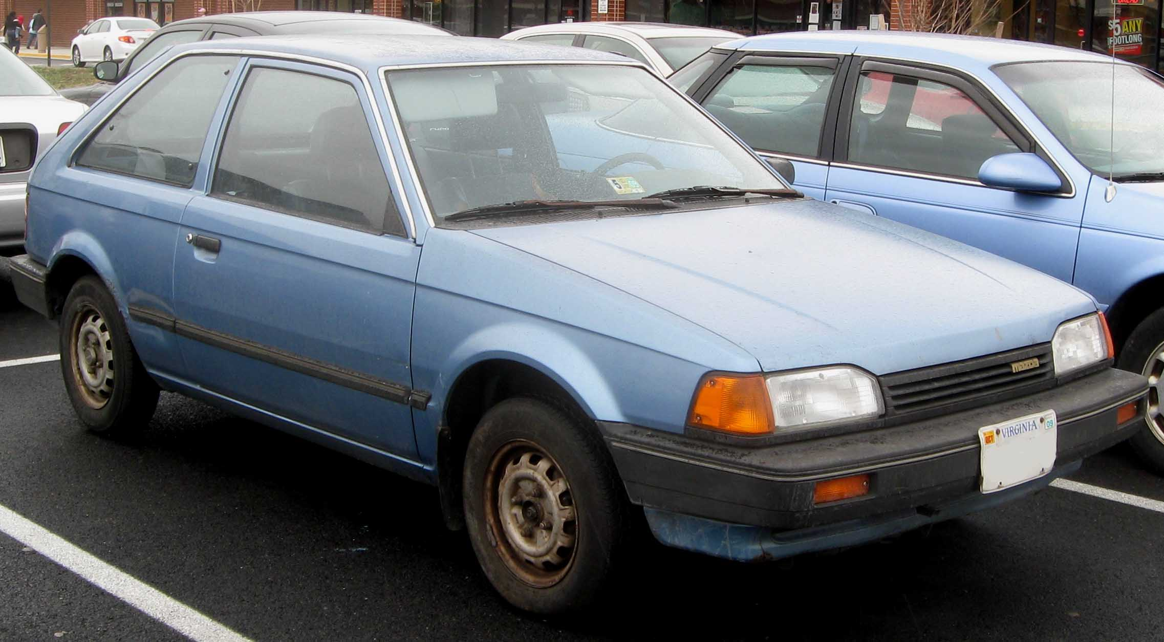 1988-1989 Mazda 323 photographed in Waldorf, Maryland, USA.